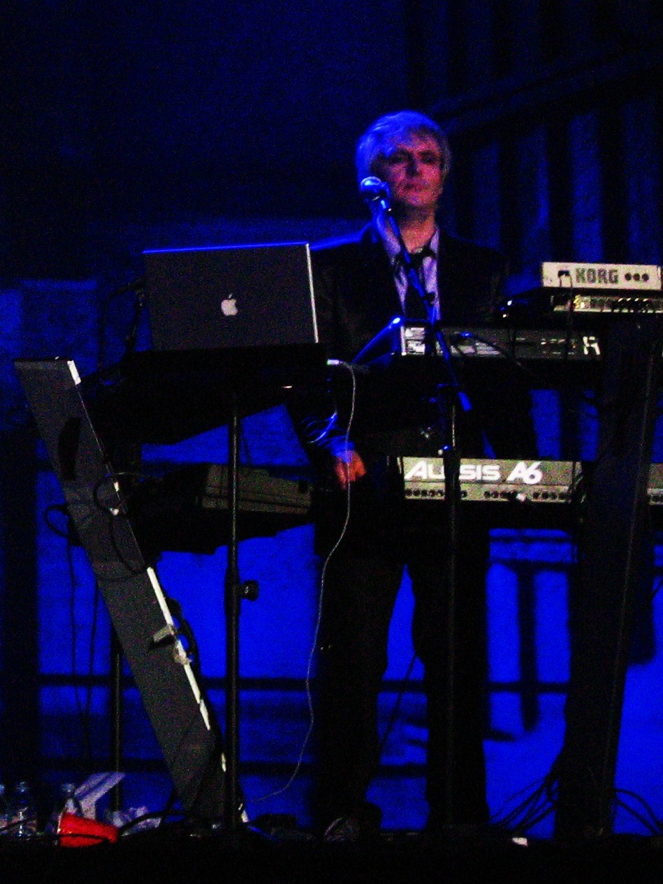 Nick Rhodes (Nicholas James Bates) - the famous English keyboardist for Duran Duran.